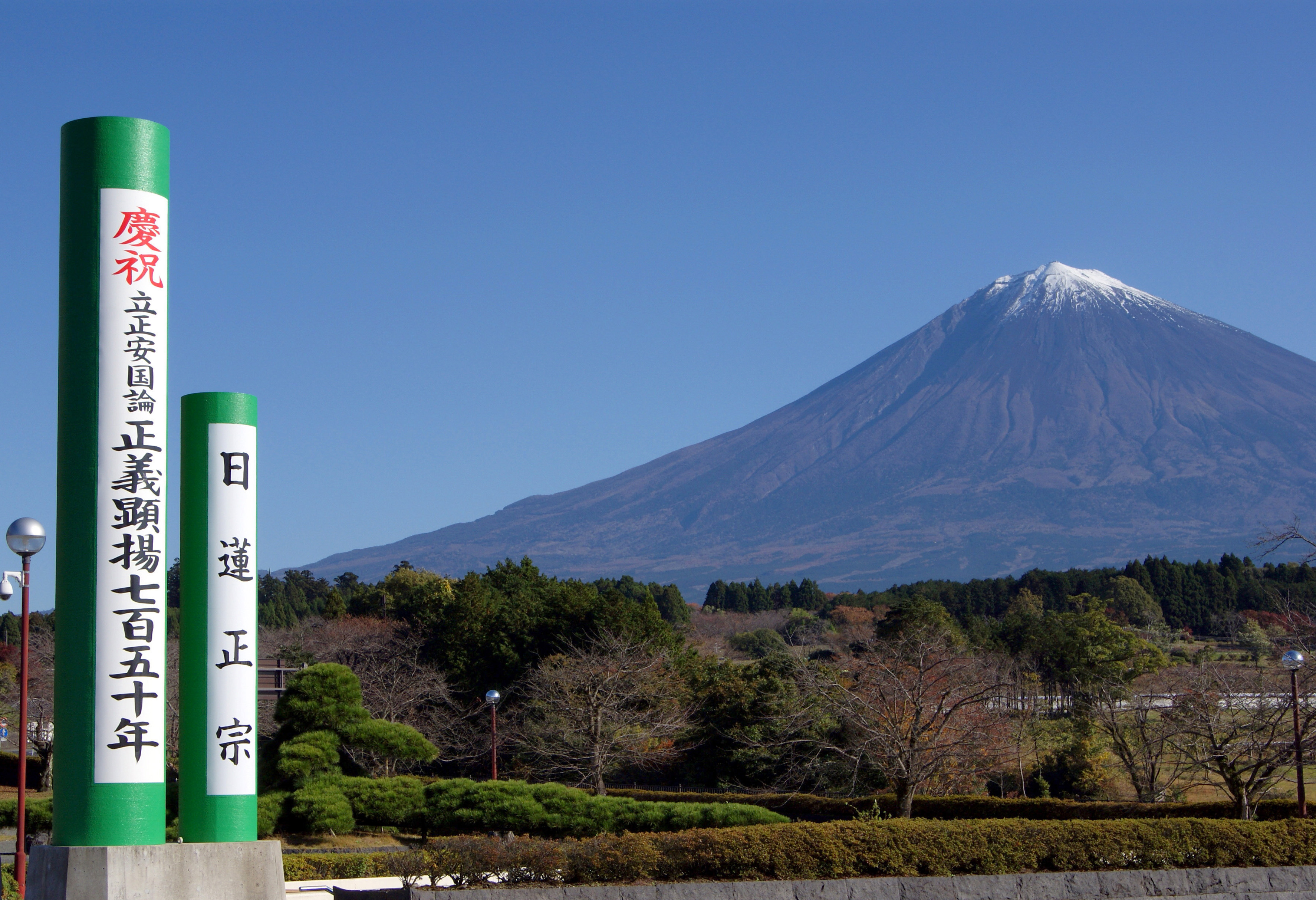 Taiseki-ji in 2009.